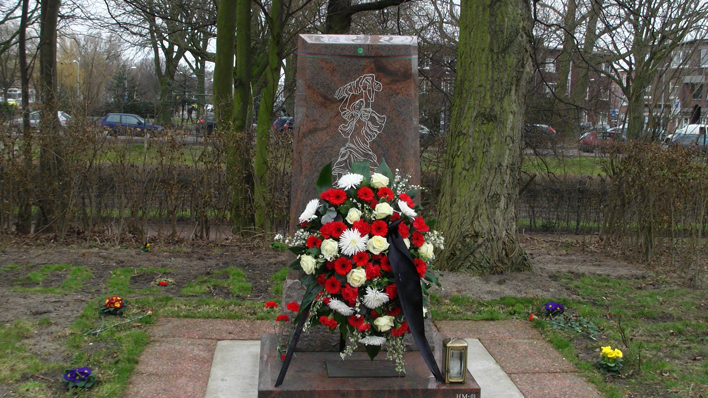 20th remembrance day of Khojaly Genocide in The Hague, Netherlands.